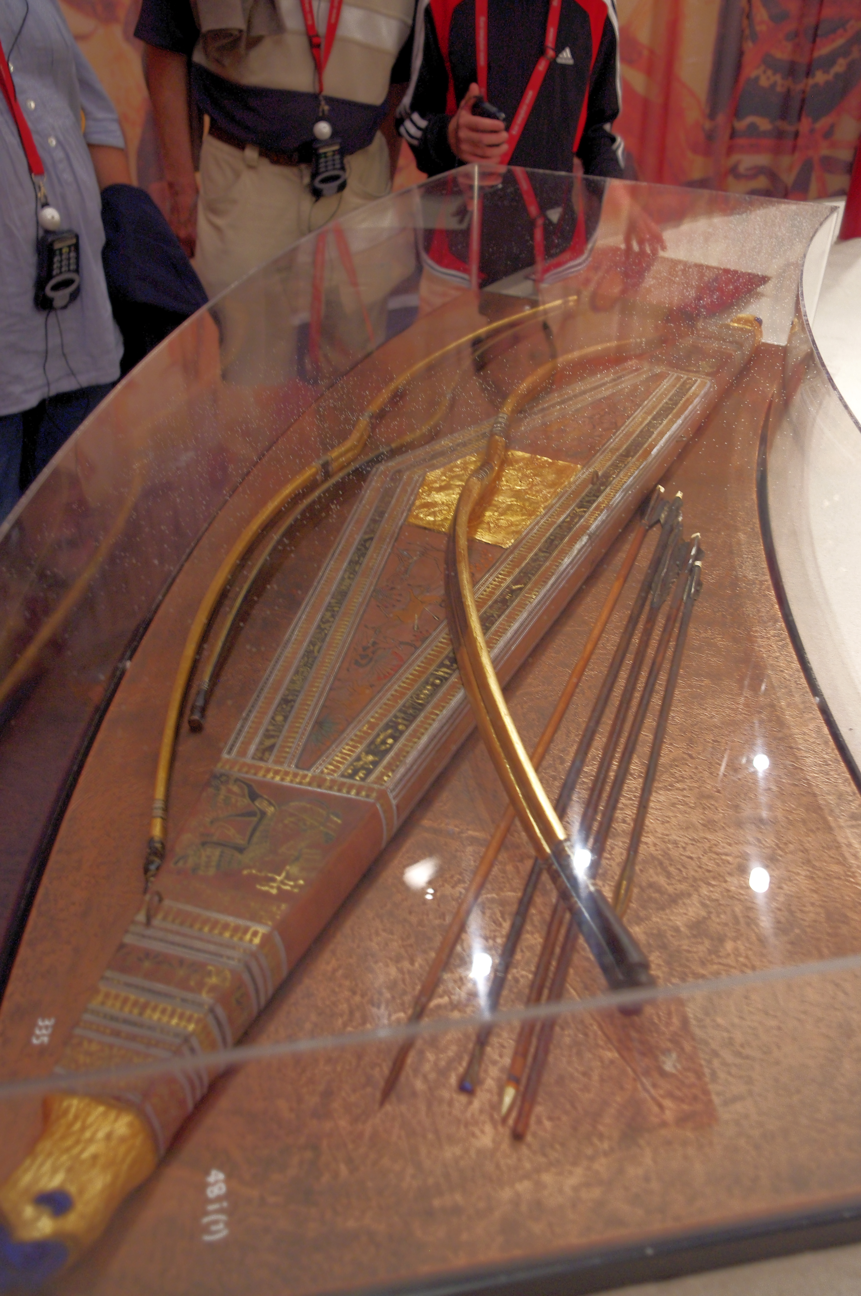 Treasure of Tutankhamun, exposition in Paris 2012. Arrows, two double composite bows, one composite bow and wooden bow case.